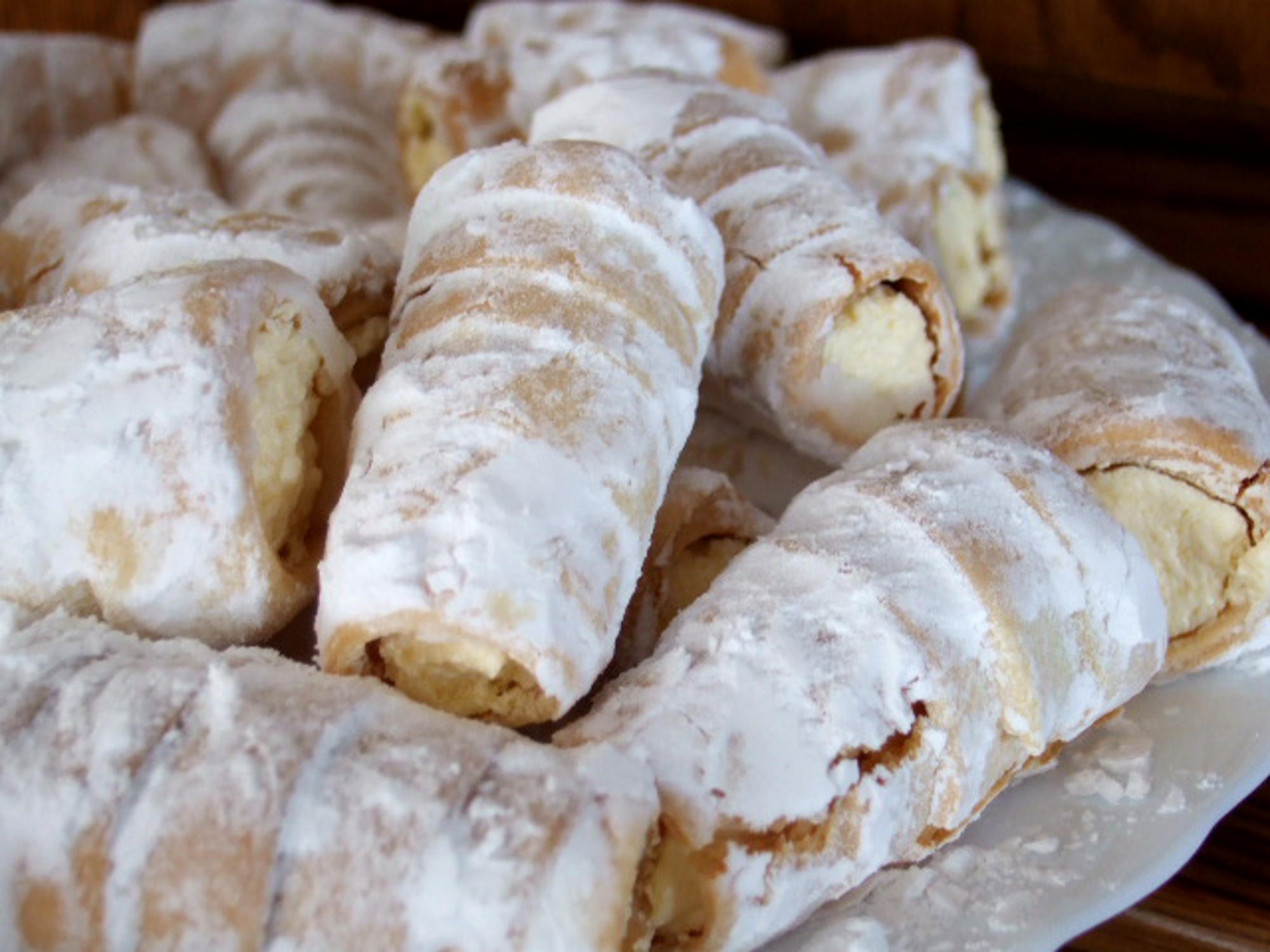 Tube with a crisp pastry filled with custard cream.